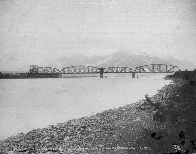 Construction photographs of the Copper River and Northwestern Railway along the Copper River from 1906-1911. The techniques developed by Erastus Hawkins for setting the foundations and steel work for the bridge became standards for future Arctic construction and have been studied by other engineers assigned to major Arctic engineering projects. The bridge was completed in the summer of 1910. Caption on image: E.A. Hegg 388. Miles Glacier Bridge. Copper River & Northwestern Railway, Alaska PH Coll 375.100 Subjects (LCTGM): Railroad bridges--Alaska--Miles Glacier; Rivers--Alaska Subjects (LCSH): Miles Glacier Bridge (Alaska); Copper River (Alaska)